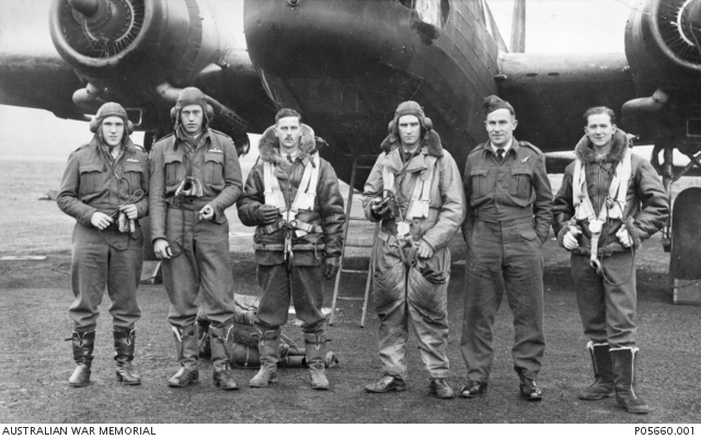 AWM caption : Group portrait of the crew of "K" for Kitty, 458 Squadron RAAF after a raid. Identified, left to right: 404455 Sergeant (Sgt) James Howard "Rupe" Holmes, captain of Brisbane, Qld 404611 Sgt Sven Ivanouw Hansen, 2nd pilot of Brisbane, Qld 1261126 Sgt Les H Empson RAF, front gunner 407199 Sgt Robert McKerlie (Bob) Croft, rear gunner of Adelaide, SA probably 404343 Sgt Norman Henry Kobelke, observer of Brisbane, Qld (originally of Bulawayo, Rhodesia) 1283720 Sgt Ken A Cousins, RAF, wireless operator Croft was later lost on operations whilst flying with 463 Squadron RAAF. The accident report describes the events: Lancaster LL882 took off from RAF Waddington at 2200 hours on the night of 10/11th May 1944 to bomb the marshalling yards at Lille, France. Bomb load 1 x 4000lb and 16 x 500lb bombs. Nothing was heard from the aircraft after take off and it did not return to base. Fourteen aircraft from the Squadron took part in the raid and three of these including LL882 failed to return. Post war it was established that the aircraft was shot down by a night fighter and dived into an old waterlogged clay pit at the Dumoulin brickworks some 2kms west of Langemark (West-Vlaanderen) and about 8kms north of Ieper (Ypres). All the crew were killed and they are buried in the Wevelgem Communal Cemetery which is located about 22kms east of Ieper a town centre on the Meenseweg NB connecting Ieper to Menin, Wevelgem and Kortrijk, Belgium. The crew were: RAAF 402817 Sqn Ldr M Powell, DFC Captain (Pilot); RAF FO Jaques, R (Navigator); RAF Flt Sgt B Fraser, (Bomb Aimer); RAAF 406700 Flt Lt Read, W N (Wireless Operator Air Gunner); RAF Sgt H L Molyneux, (Flight Engineer); RAAF 407199 FO Croft, R McK (Air Gunner); RAAF 407821 FO Croston, D P (Air Gunner).